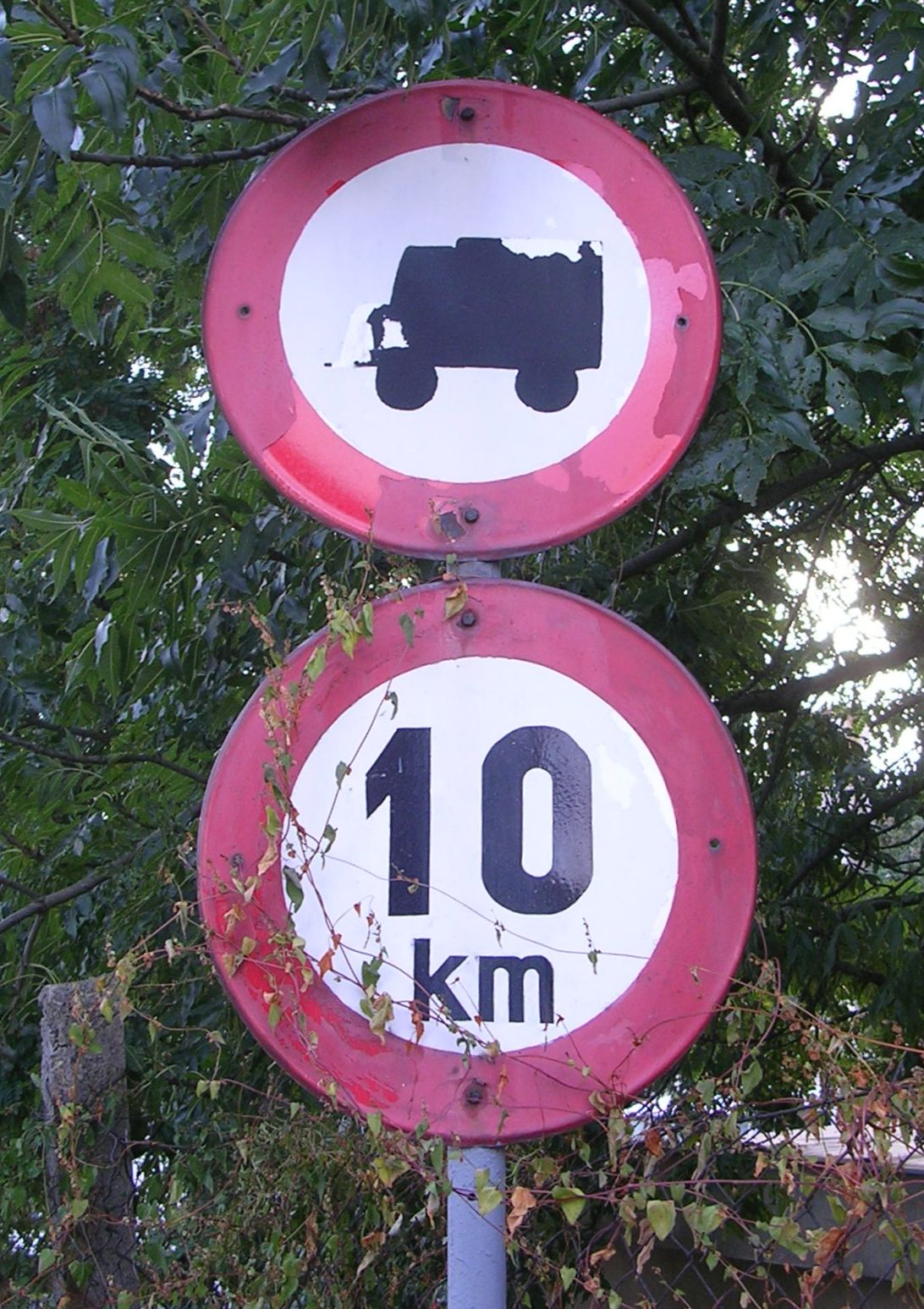 Braník, Prague, the Czech Republic. Old road signs near Ledařská street.